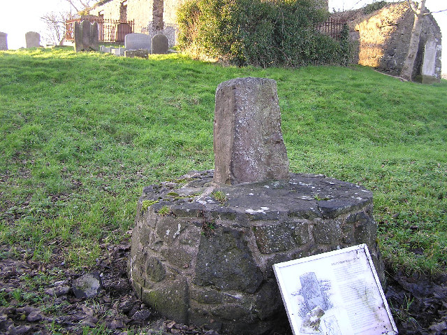 Derrykeighan Stone. At Derrykeighan Old Church, about one and a half miles from the village of Dervock, a stone was recently discovered built into the corner of the Church. The stone, which is not part of the original fabric of the building is thought to date from the 1st Century A.D. Inscribed on the stone is an Irish form of the Early Iron Age Celtic Art. The stone, which is thought to have been carved locally, is one of the most important Early Iron Age objects yet found in Ireland.